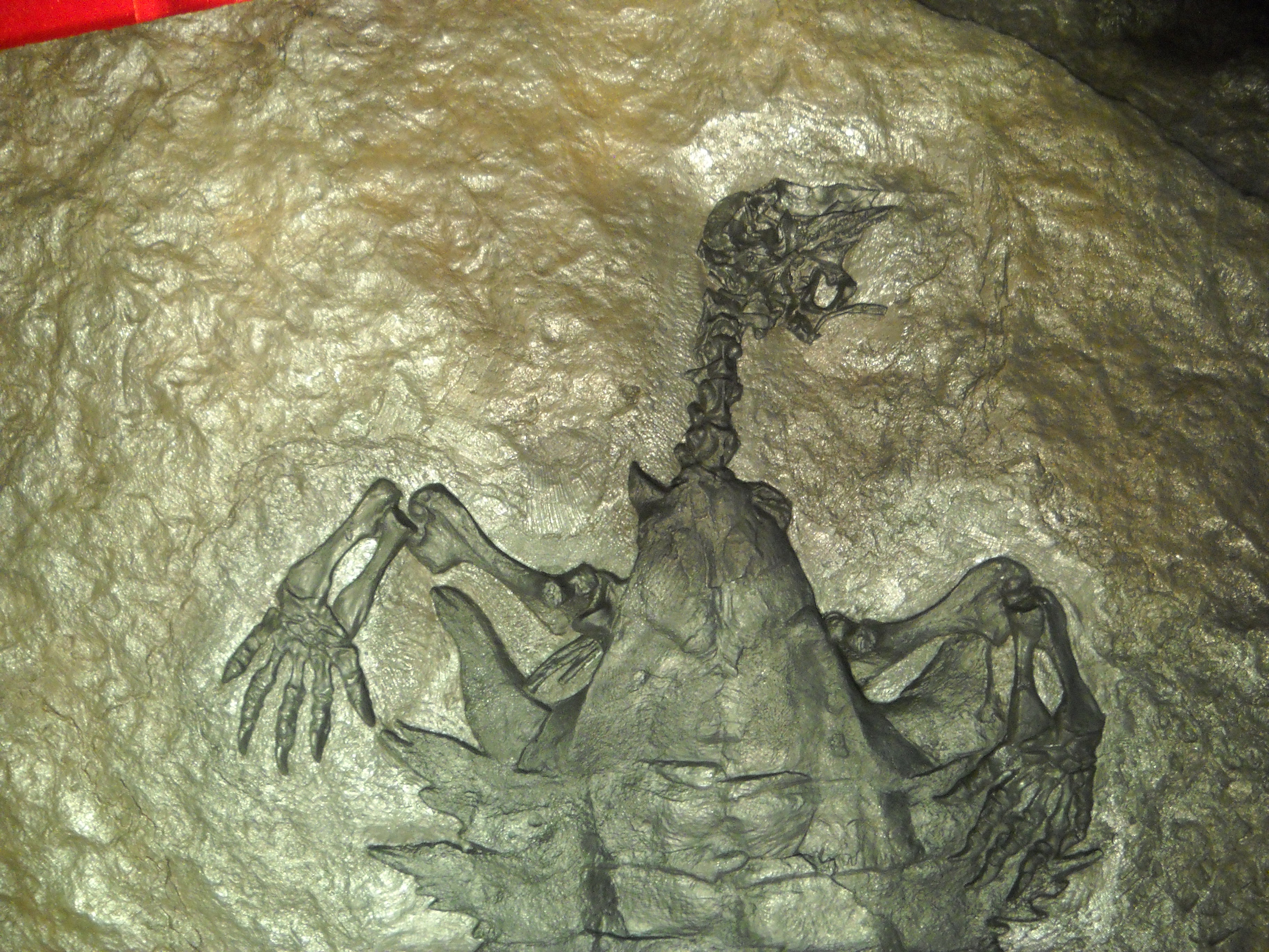 Ventral view of anterior body of Odontochelys semitestacea. Defects are present on proximal humeral articular surfaces.